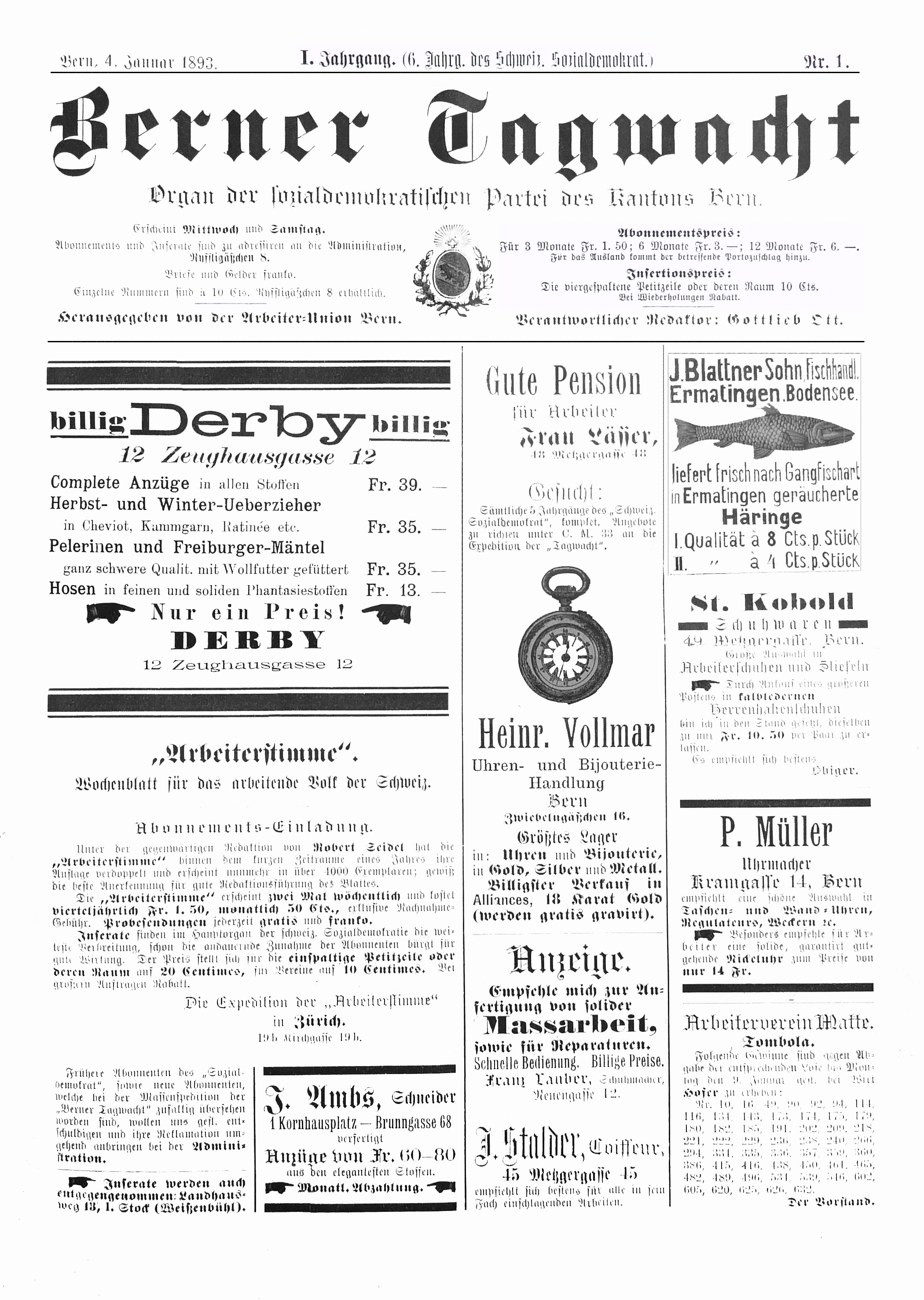 Front page of first edition of former Swiss newspaper Berner Tagwacht from January 4, 1893